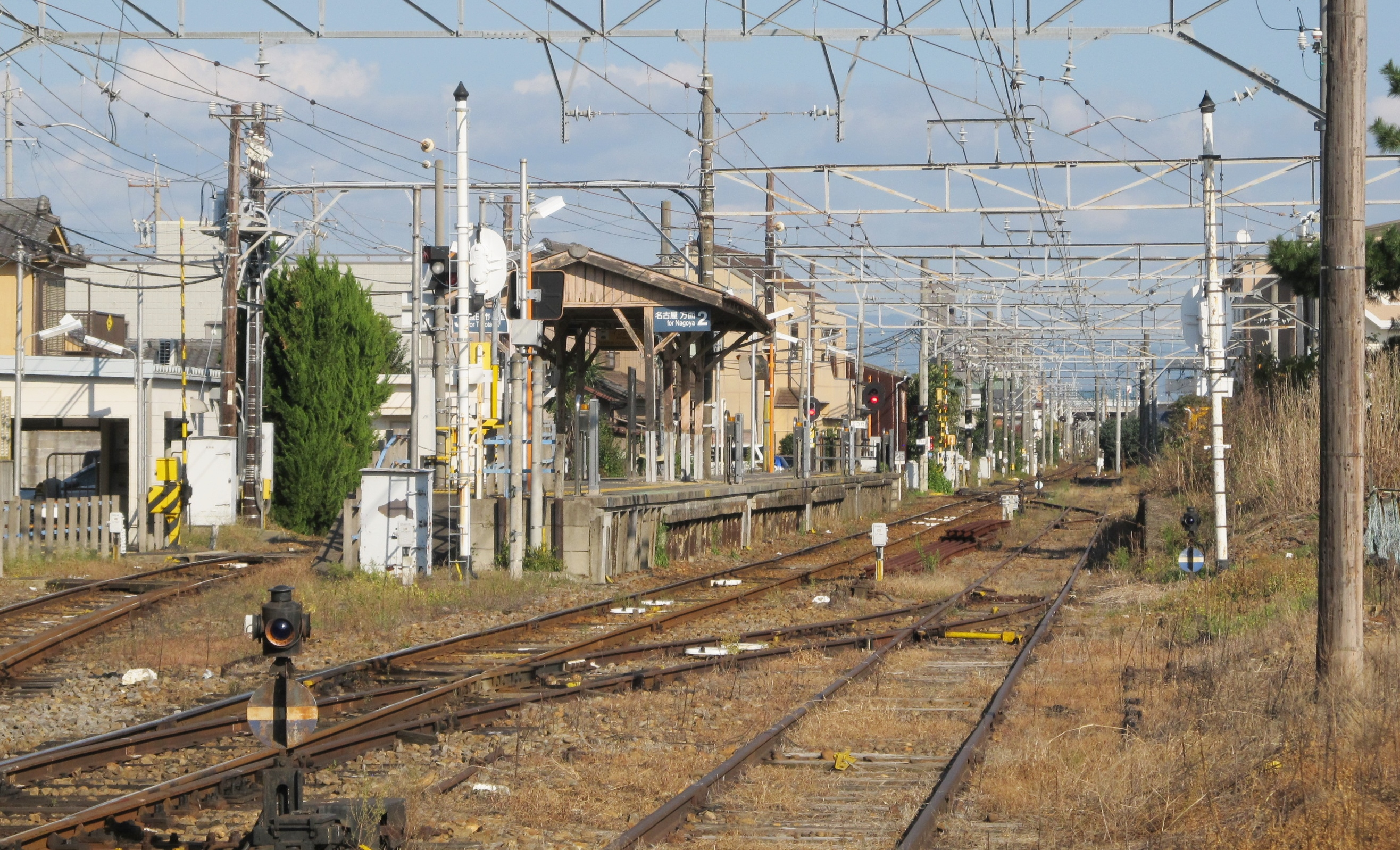 Nagoya Railroad Mikawa Line Mikawa Chiryū Station Platform